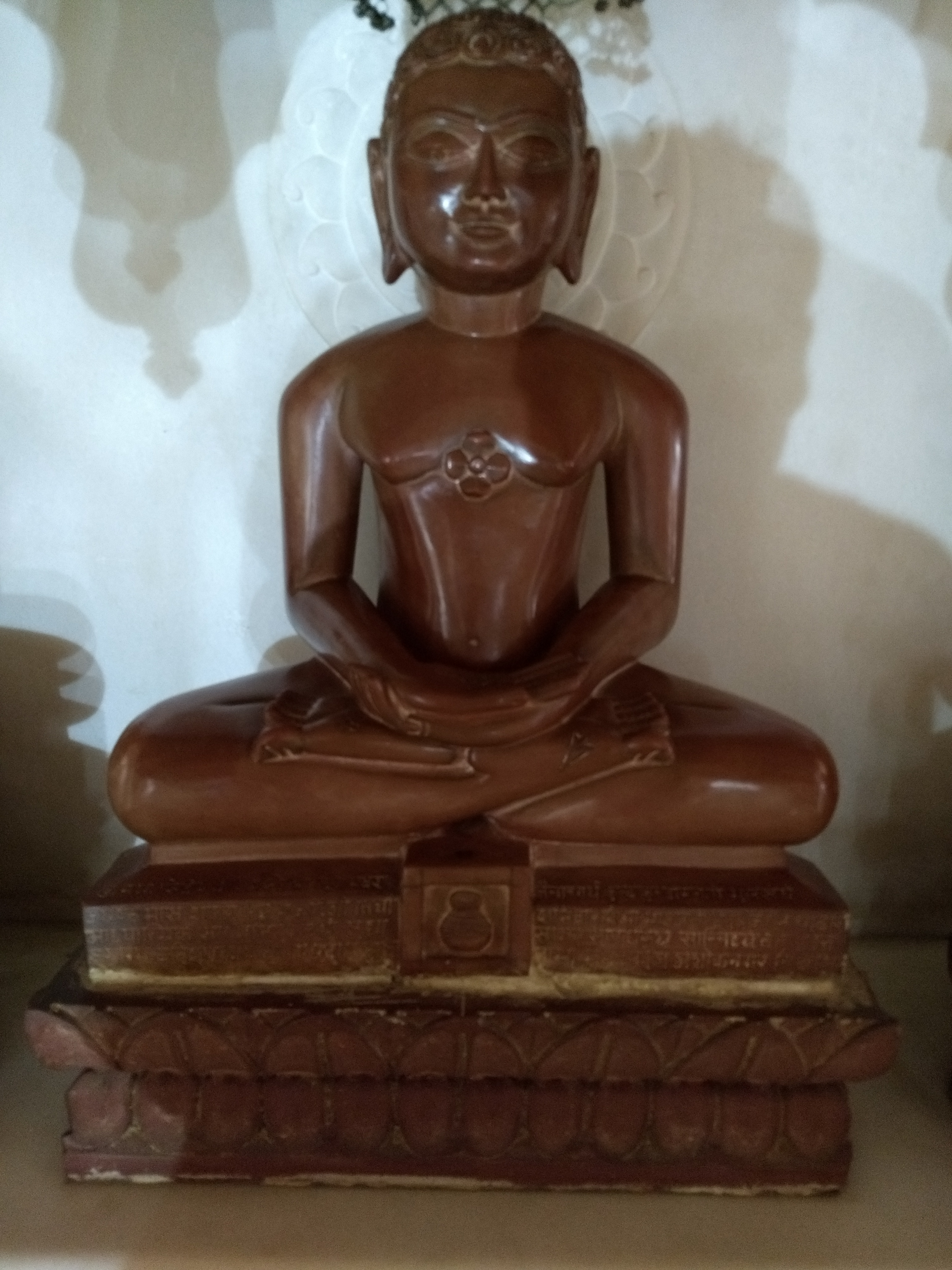 Jain statues in Anwa, Rajasthan